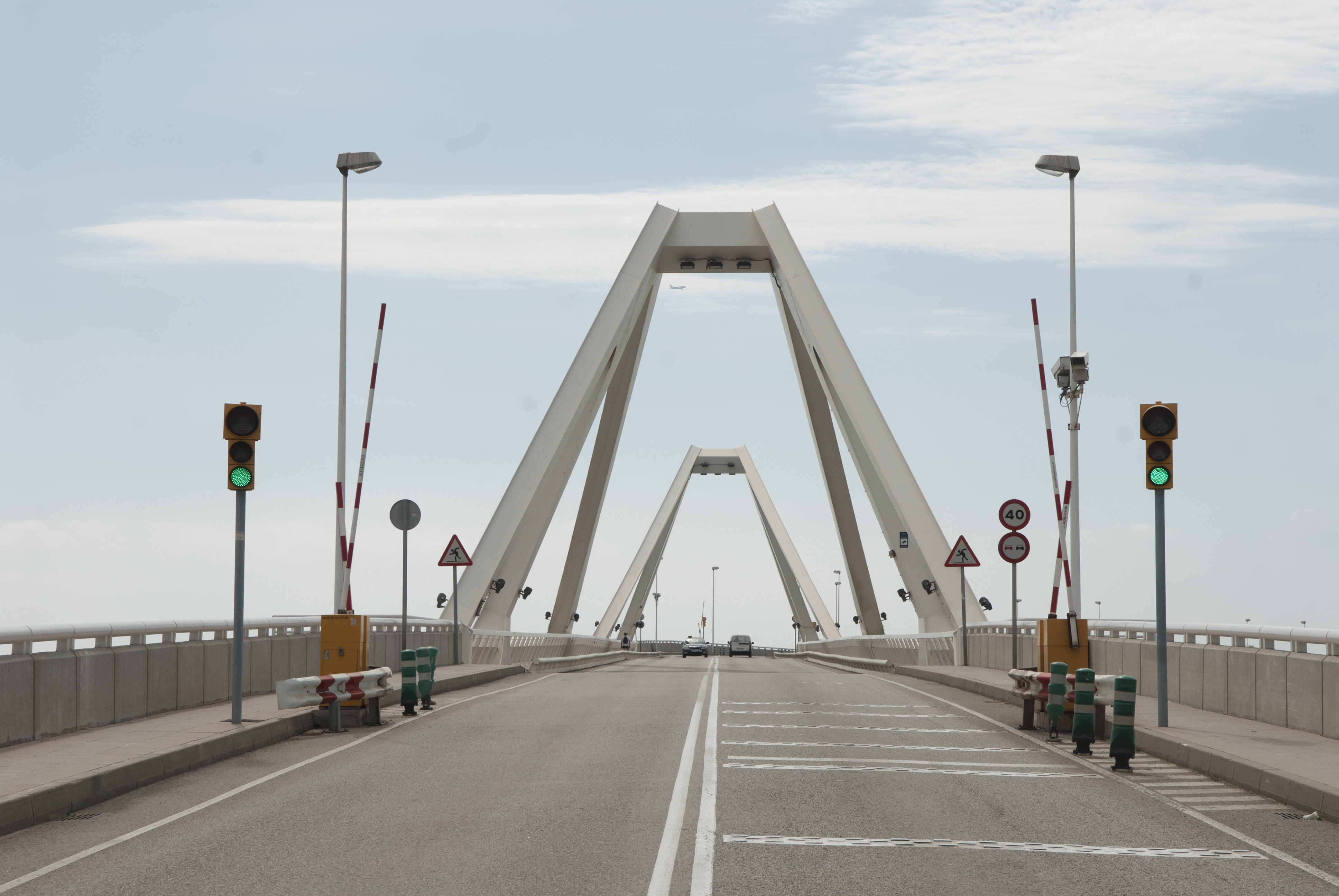 Photo of Pont Porta d'Europa.